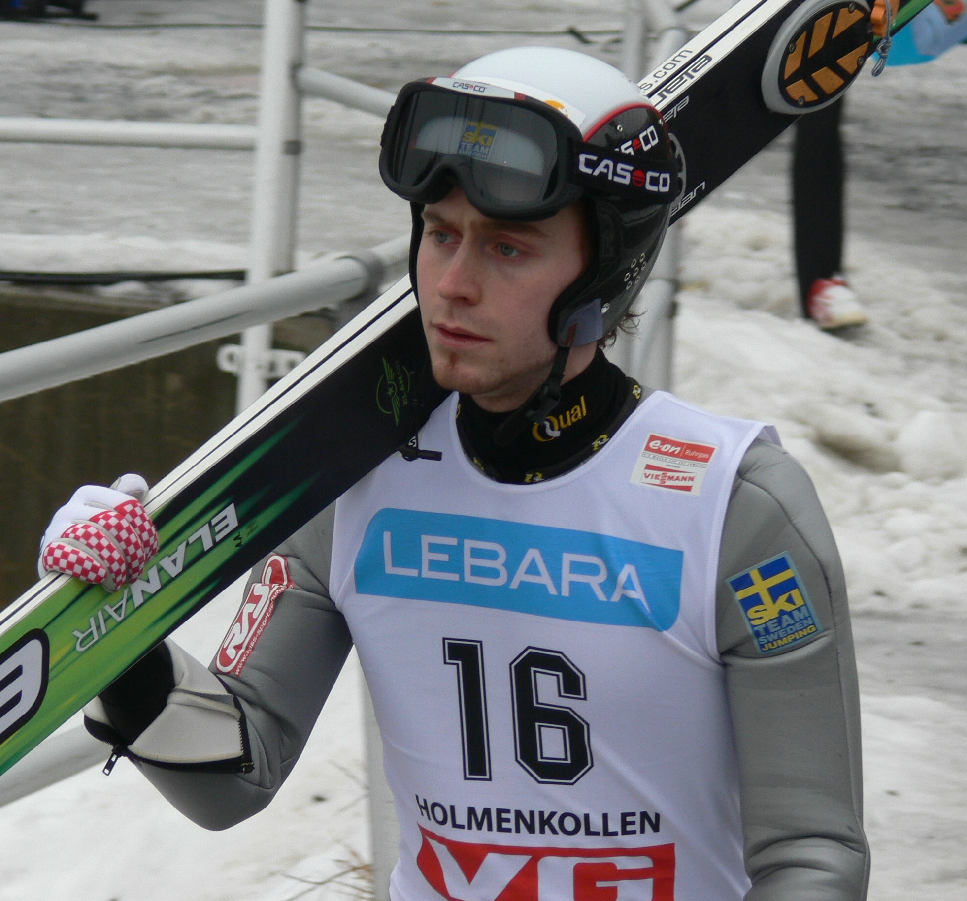 Andreas Arén at World Cup in Holmenkollen, Norway